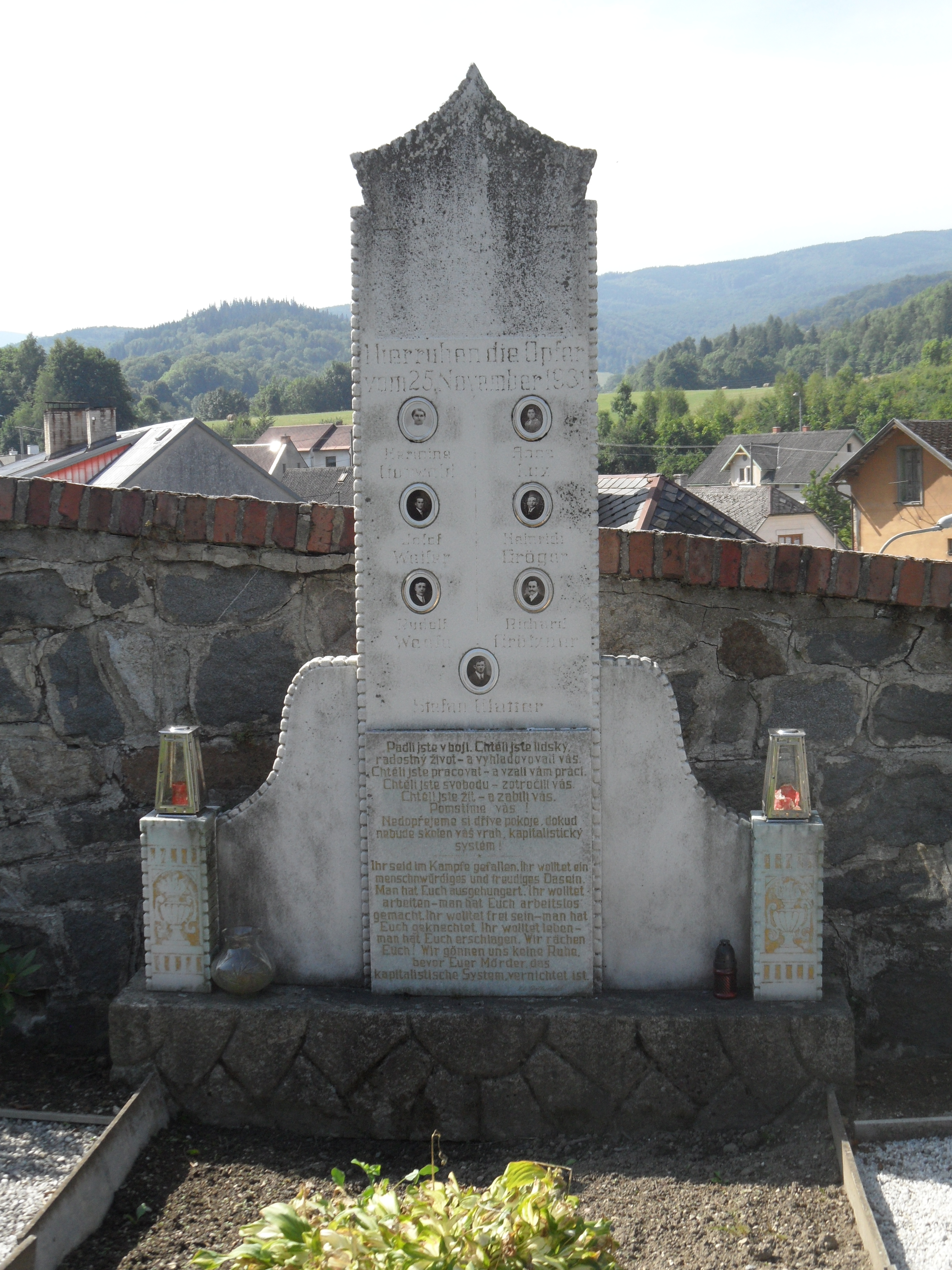 Vápenná B. Memorial of Victims of Frývaldov Strike: Semi-detail. Jeseník District, the Czech Republic.